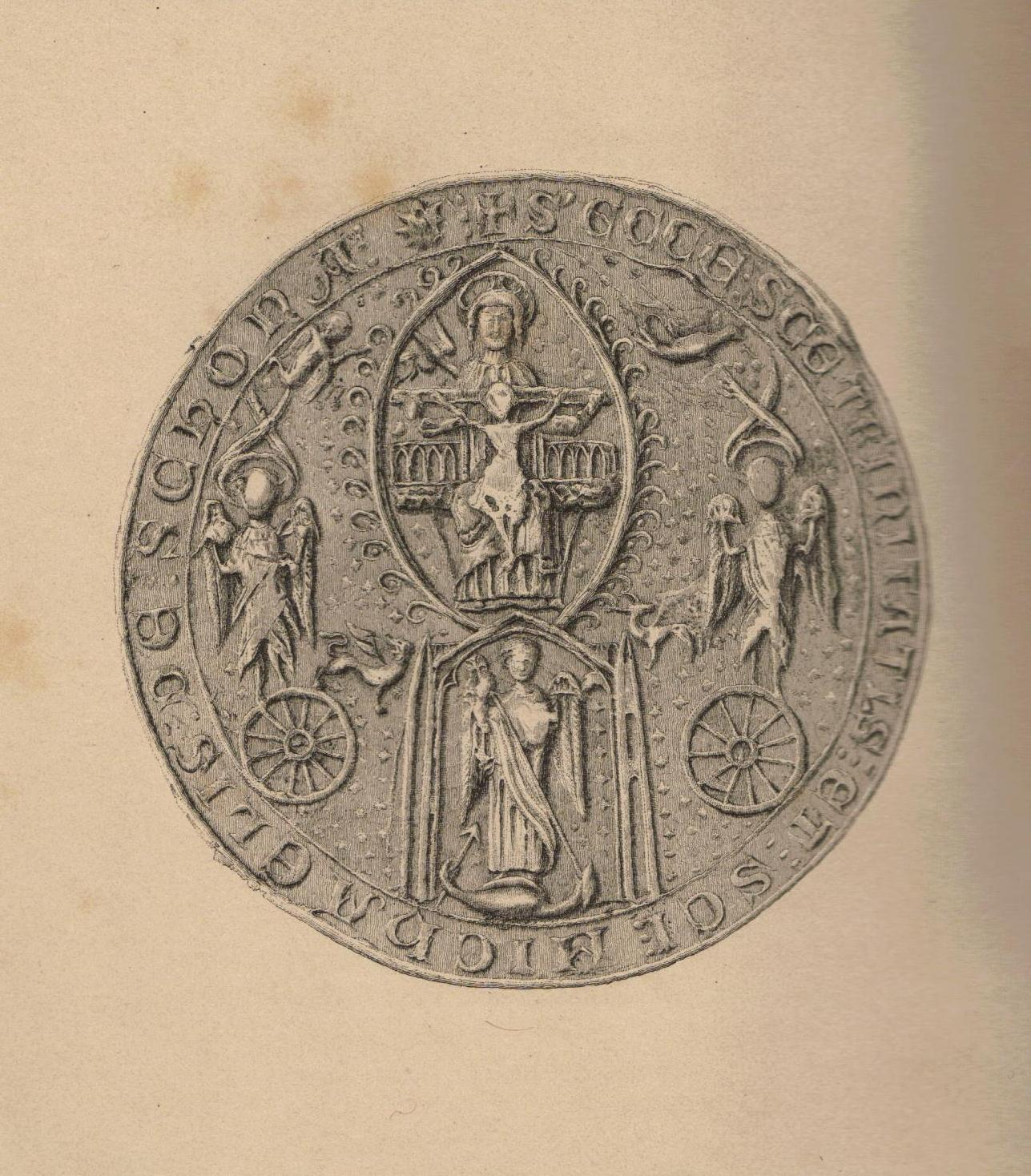 Later High Medieval in date. Taken from Cosmo Nelson Innes (ed.), Liber ecclesie de Scon : monumenta vetustiora monasterii Sancte Trinitatis et Sancti Michaelis de Scon, Bannantyne Club, 58, (Edinburgi, 1843), inside leaf.